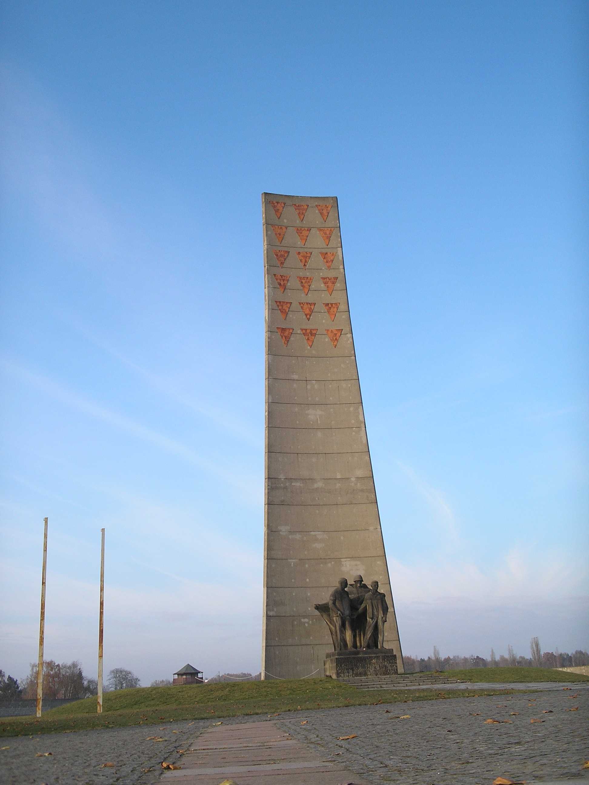 Soviet Liberation Memorial at Sachsenhausen concentration camp, Germany.